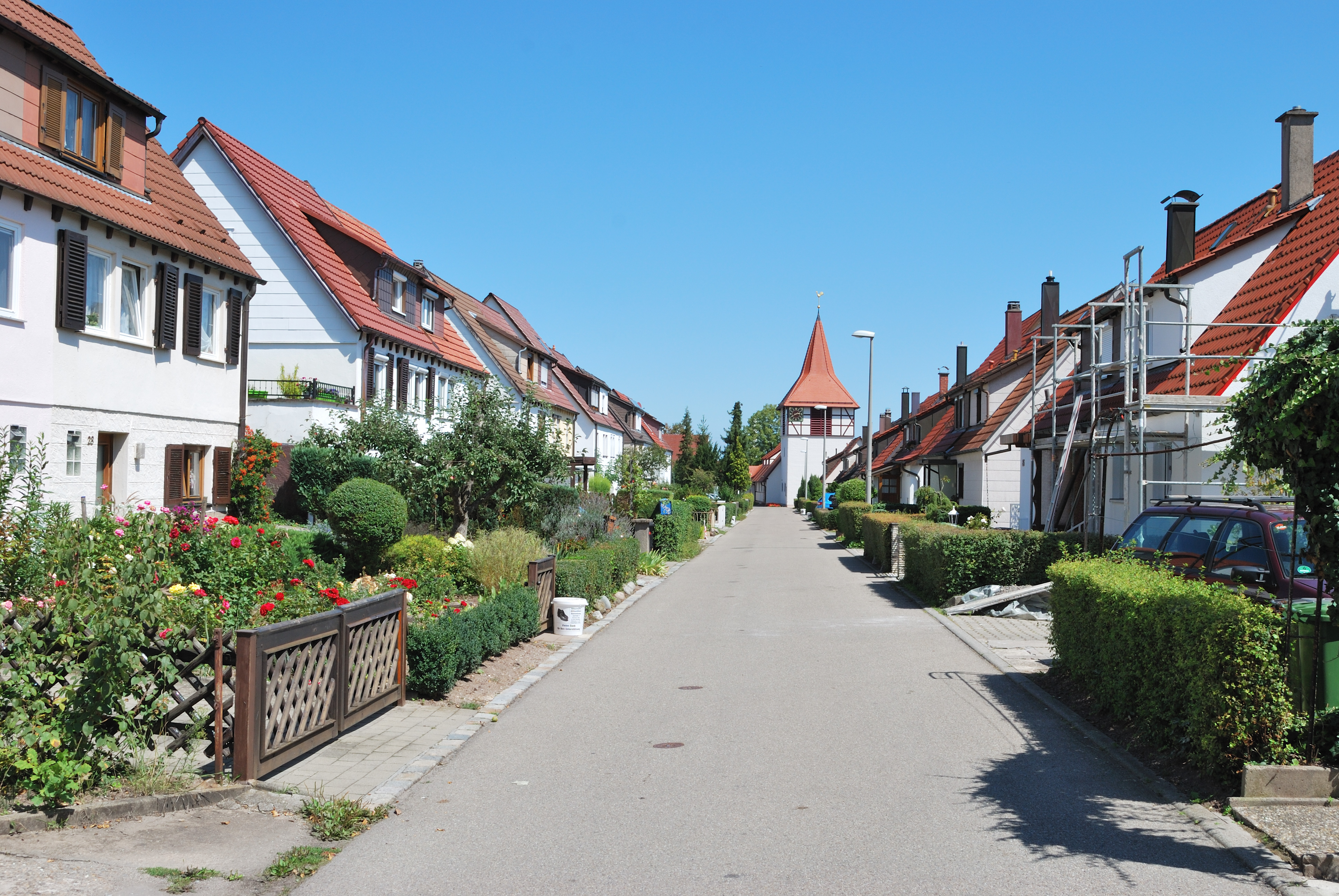 Norderney street in Neuwirtshaus, a district of Stuttgart in Germany. View to the protestant St. Michael church.